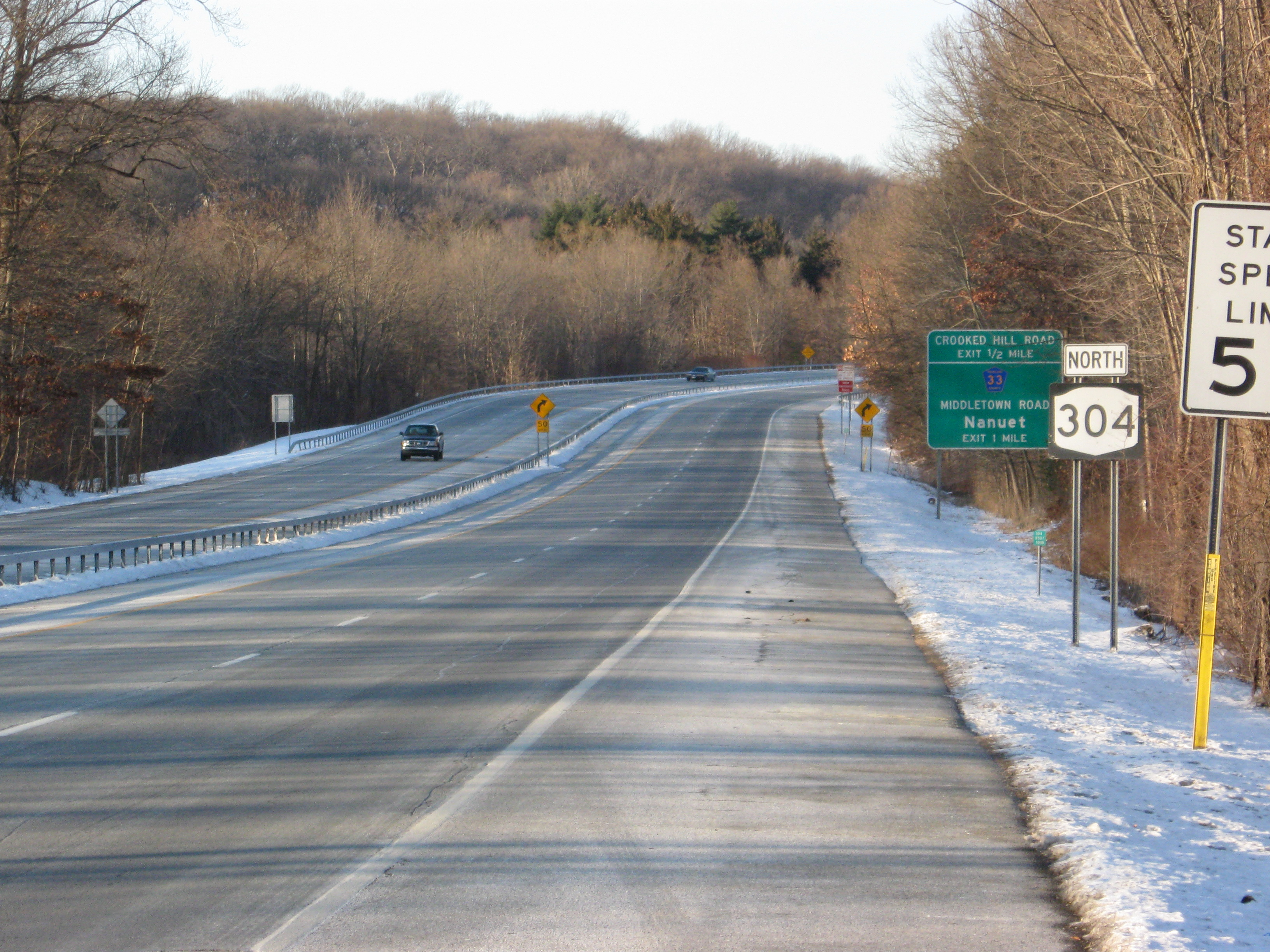 Northbound New York State Route 304 along the "Pearl River Bypass," also known as the incomplete "Pearl River-Haverstraw Expressway."